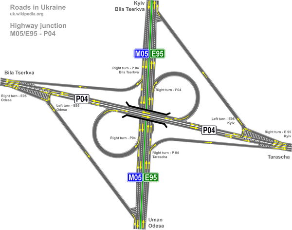 Highway Junction M05(E95)-P04 near Bila Tserkva - Language: English